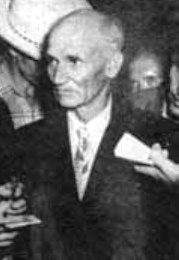 Leroy S. Johnson, a leader of the Fundamentalist Church of Jesus Christ of Latter Day Saints (FLDS Church), a religious group that practices plural marriage.